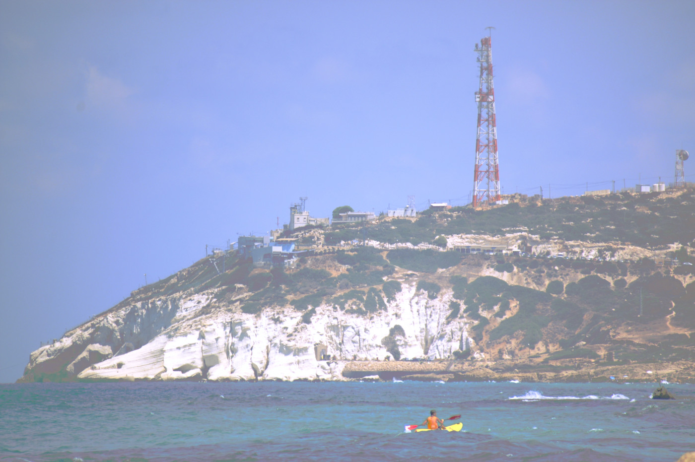 Rosh-HaNikra, Geography of Israel